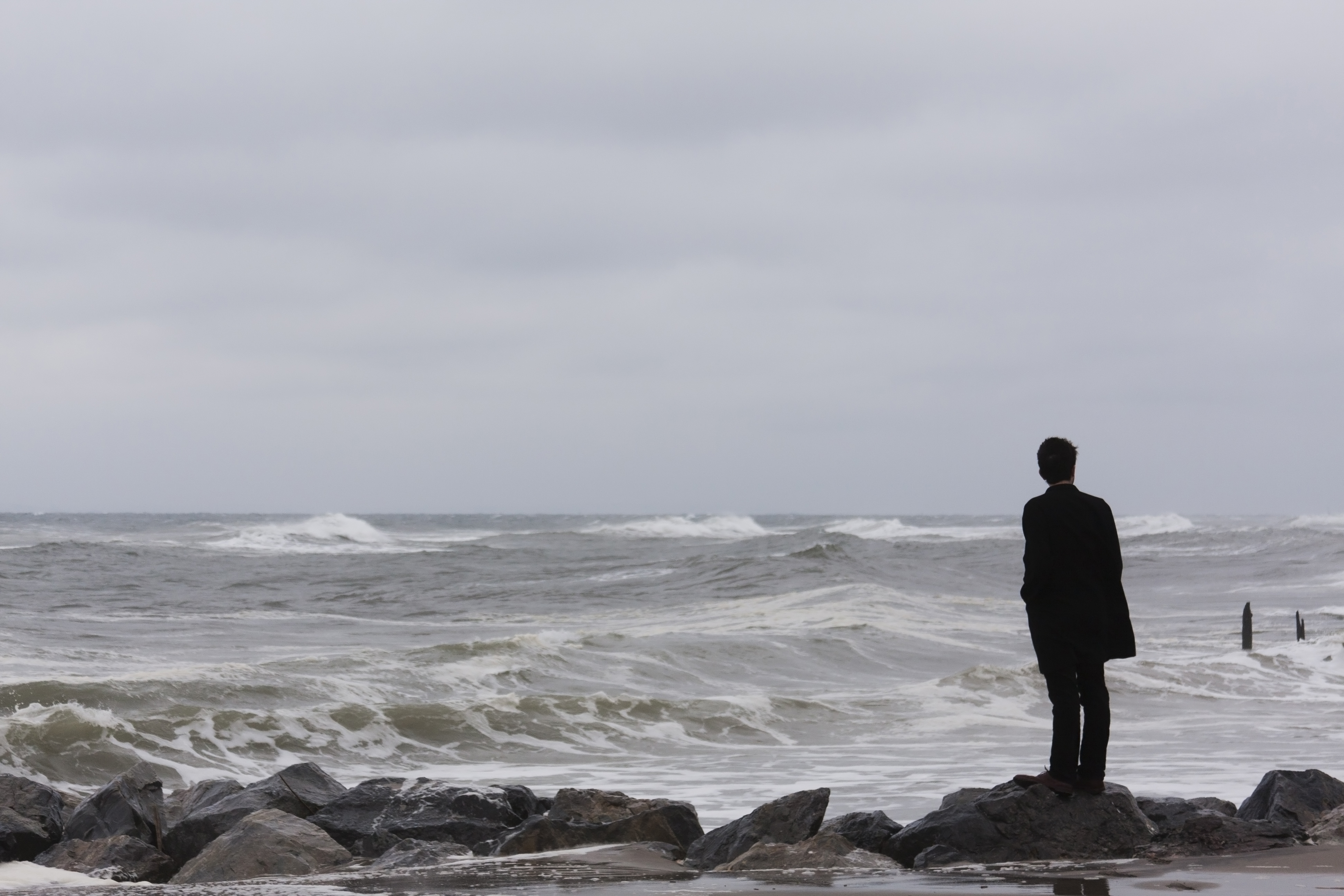 A man standing alone on the sea shore contemplating meaning in his life and the universe around him.